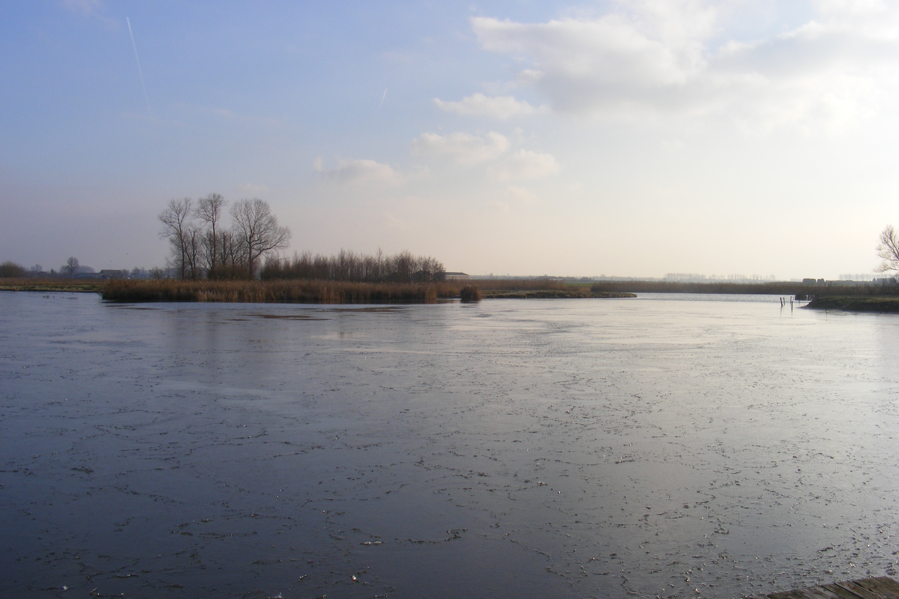 Bog island in the Grote Geule at Kieldrecht.